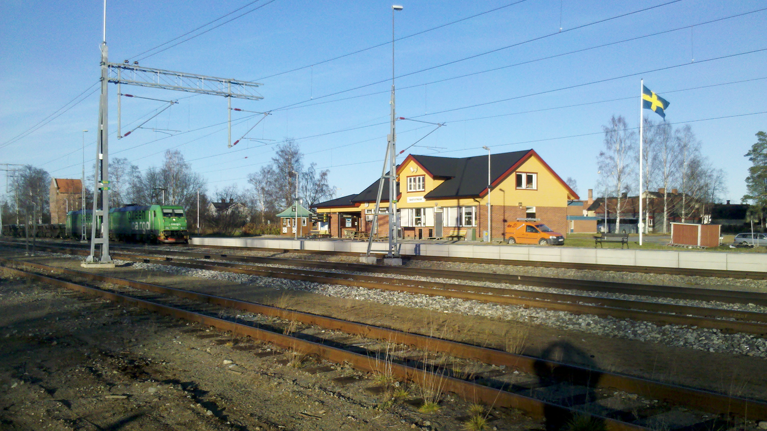 Bastutrask railway station rebuild 2011